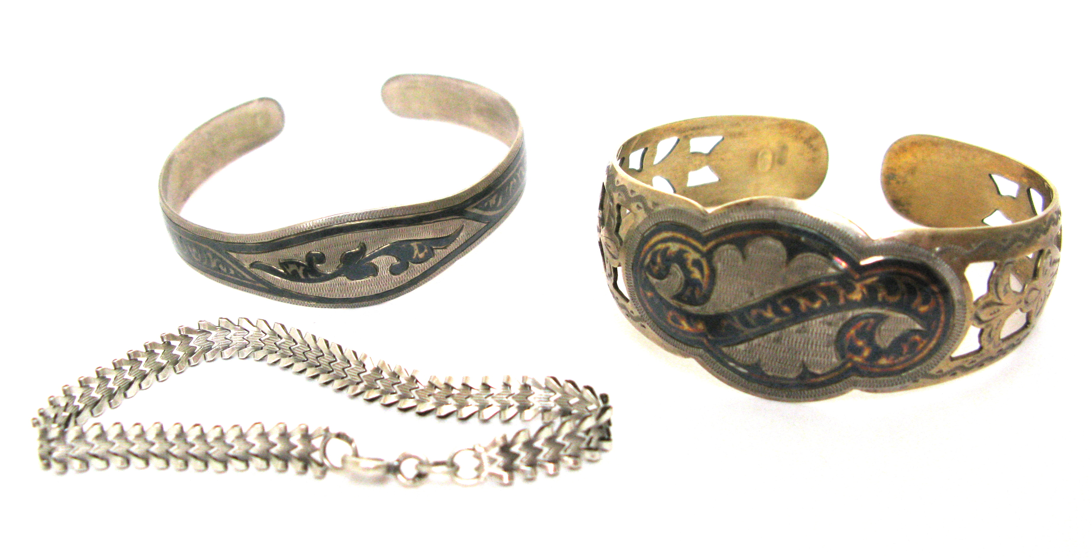 Soviet Silver Jewelry Bracelets (1970-80s)